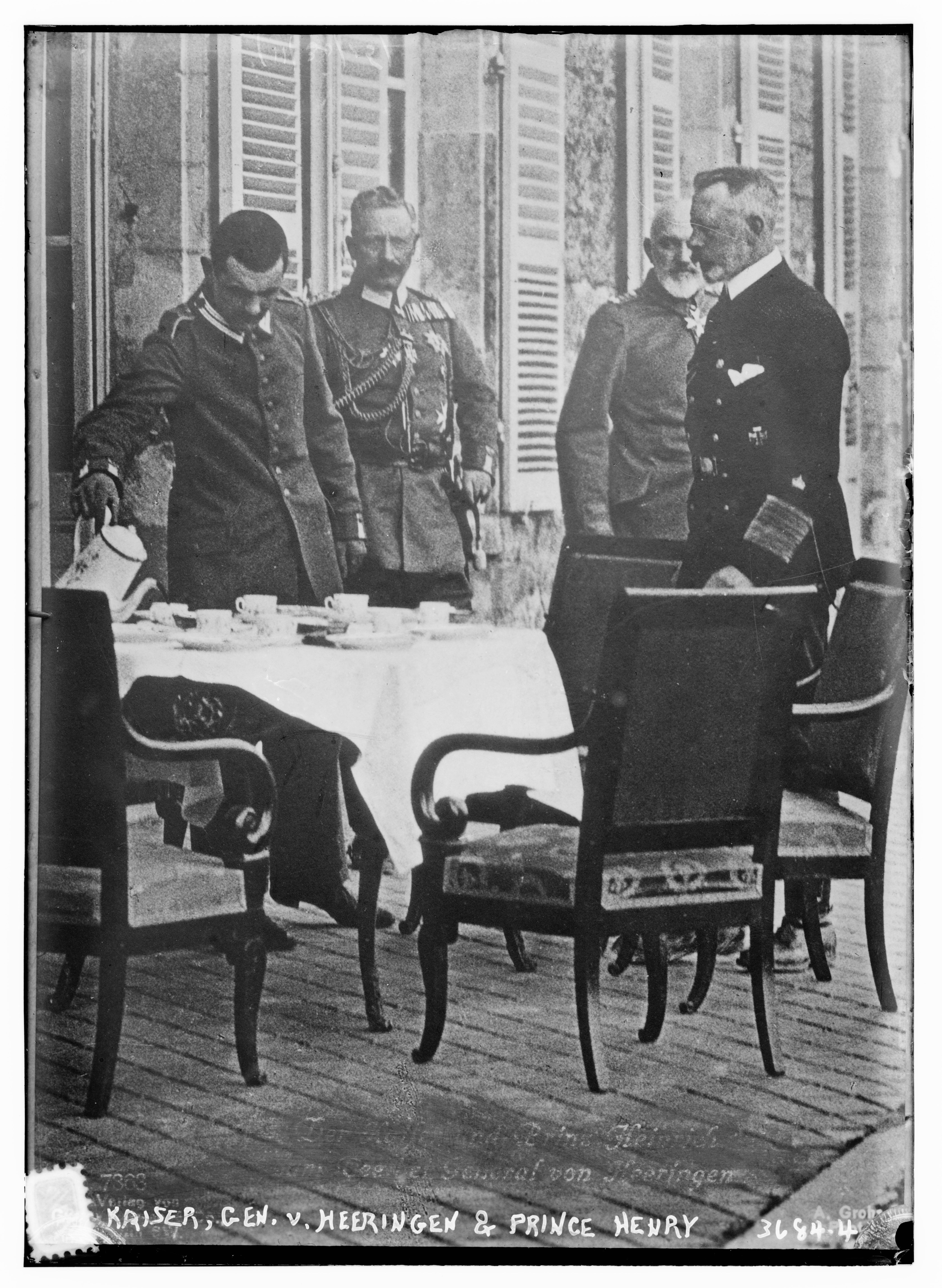 Title: Kaiser, Gen. v. Heeringen & Prince Henry Abstract/medium: 1 negative : glass ; 5 x 7 in. or smaller.